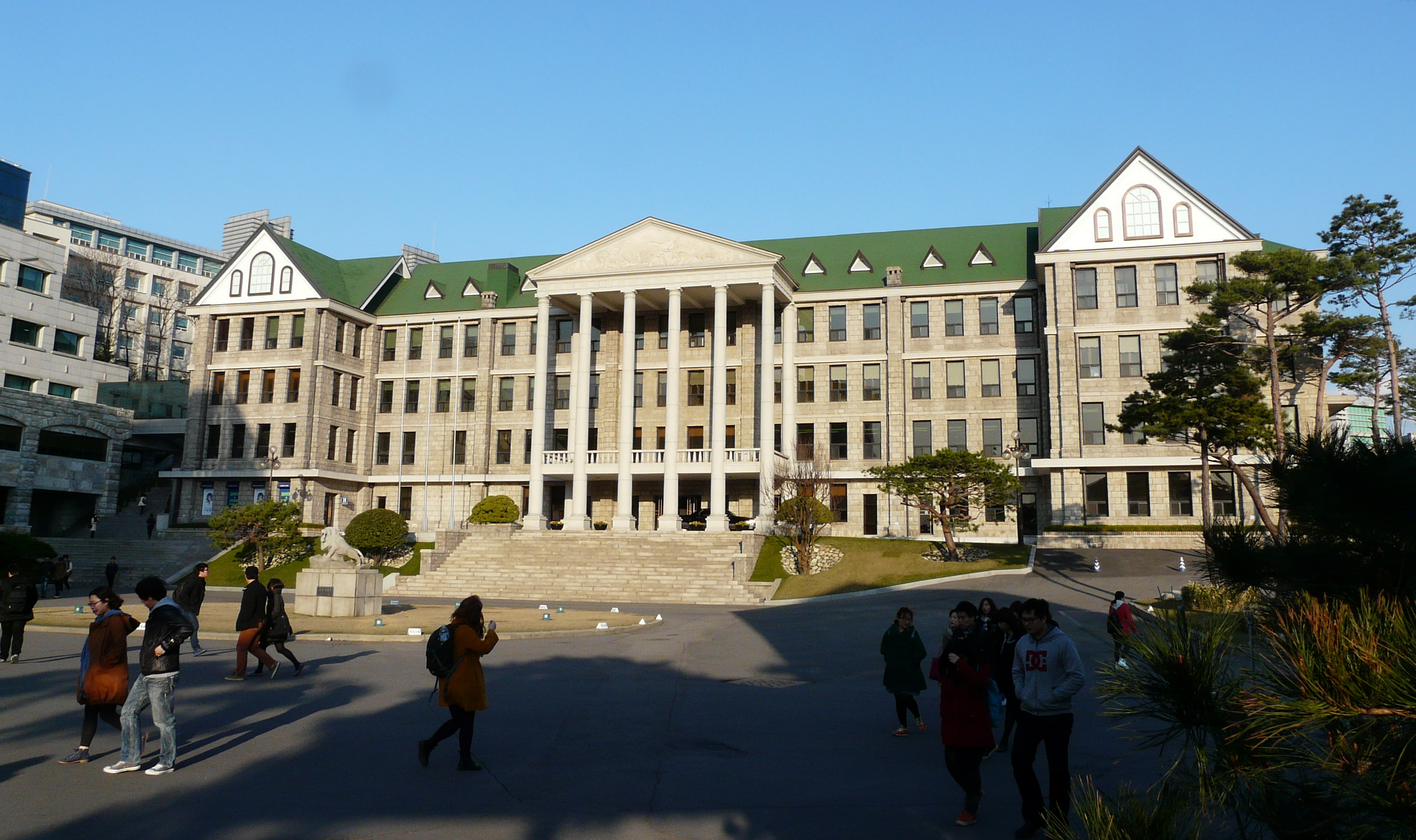 Hanyang University, private research university in South Korea, main campus is in Seoul, founded 1939.